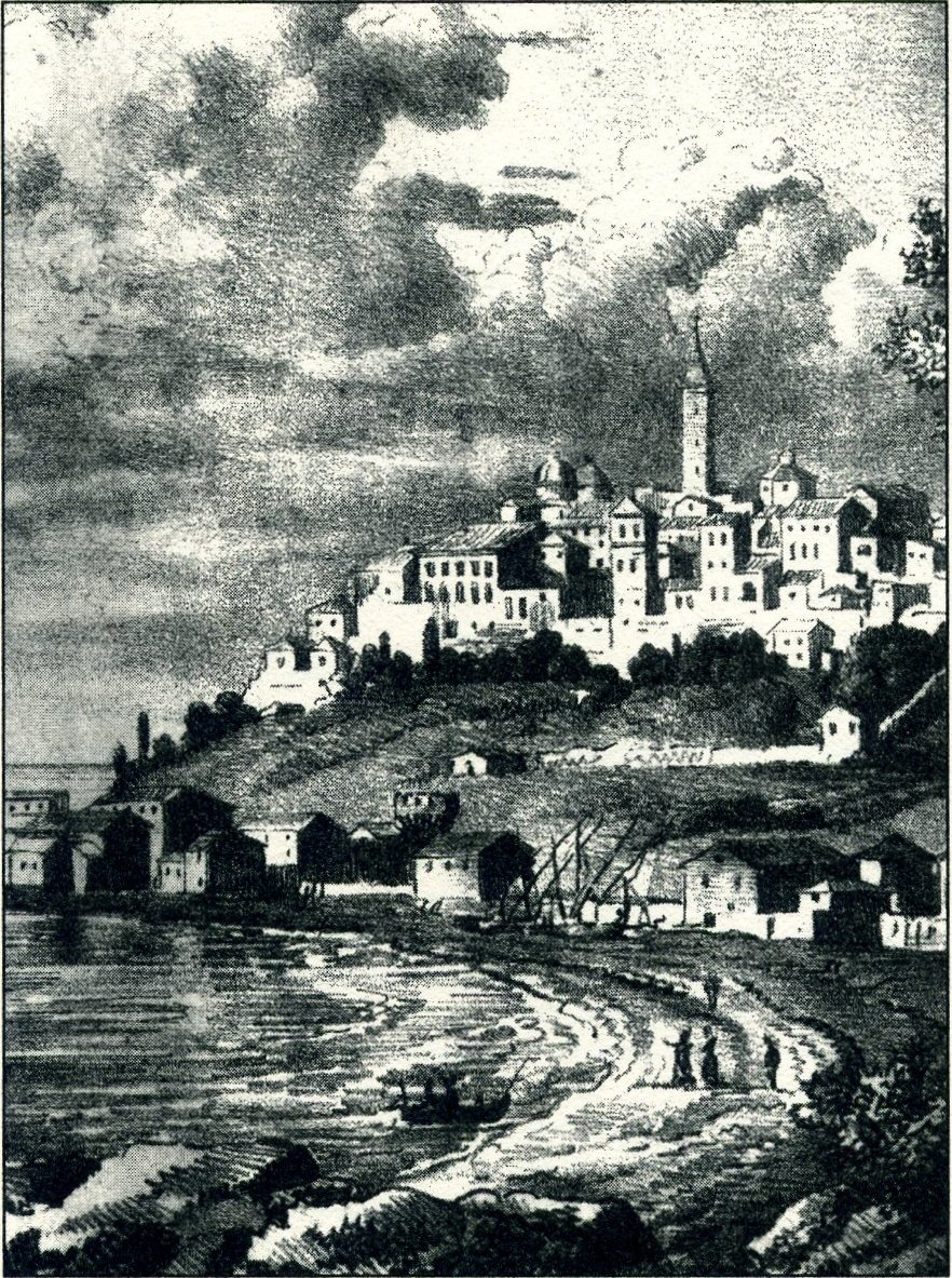 Drawing of Porto Maurizio, Italy (XVIII century)